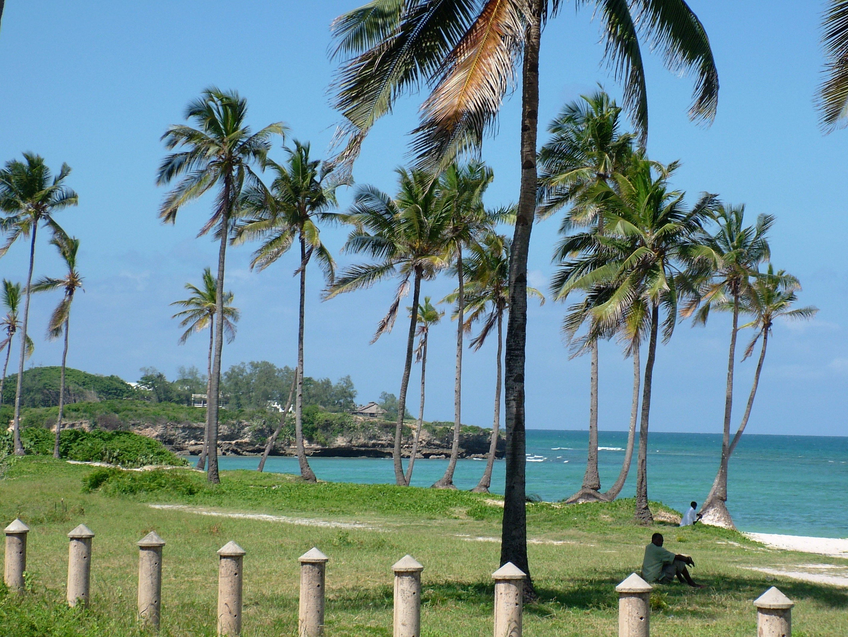 Oysterbay